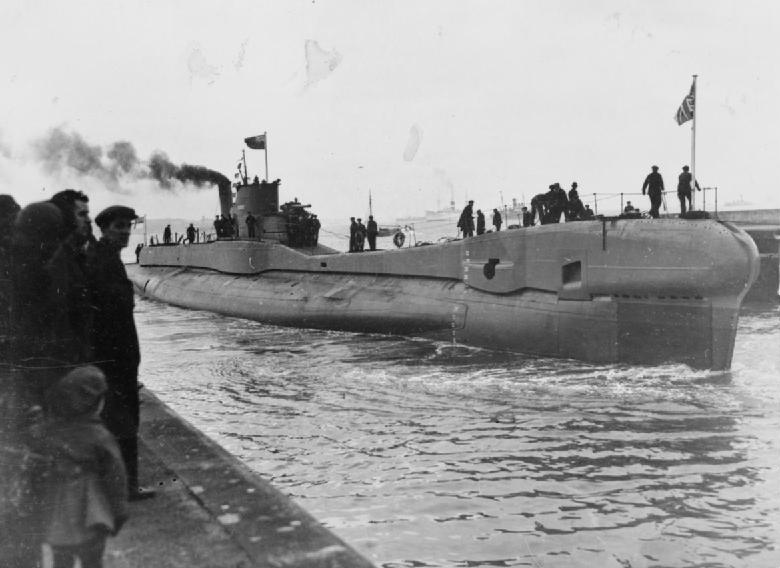 British T class submarine HMSM TRIDENT underway entering dock.